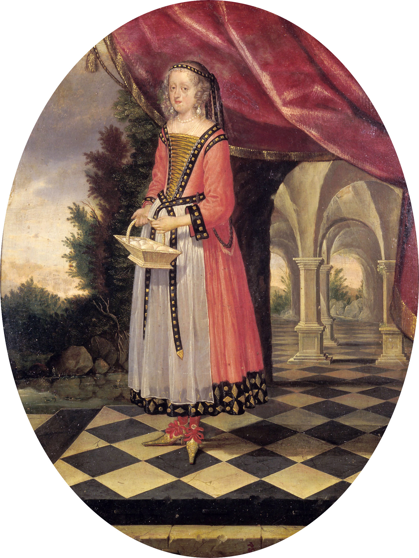 Queen Sophie Amalie of Denmark (born Princess of Brunswick-Lüneburg)